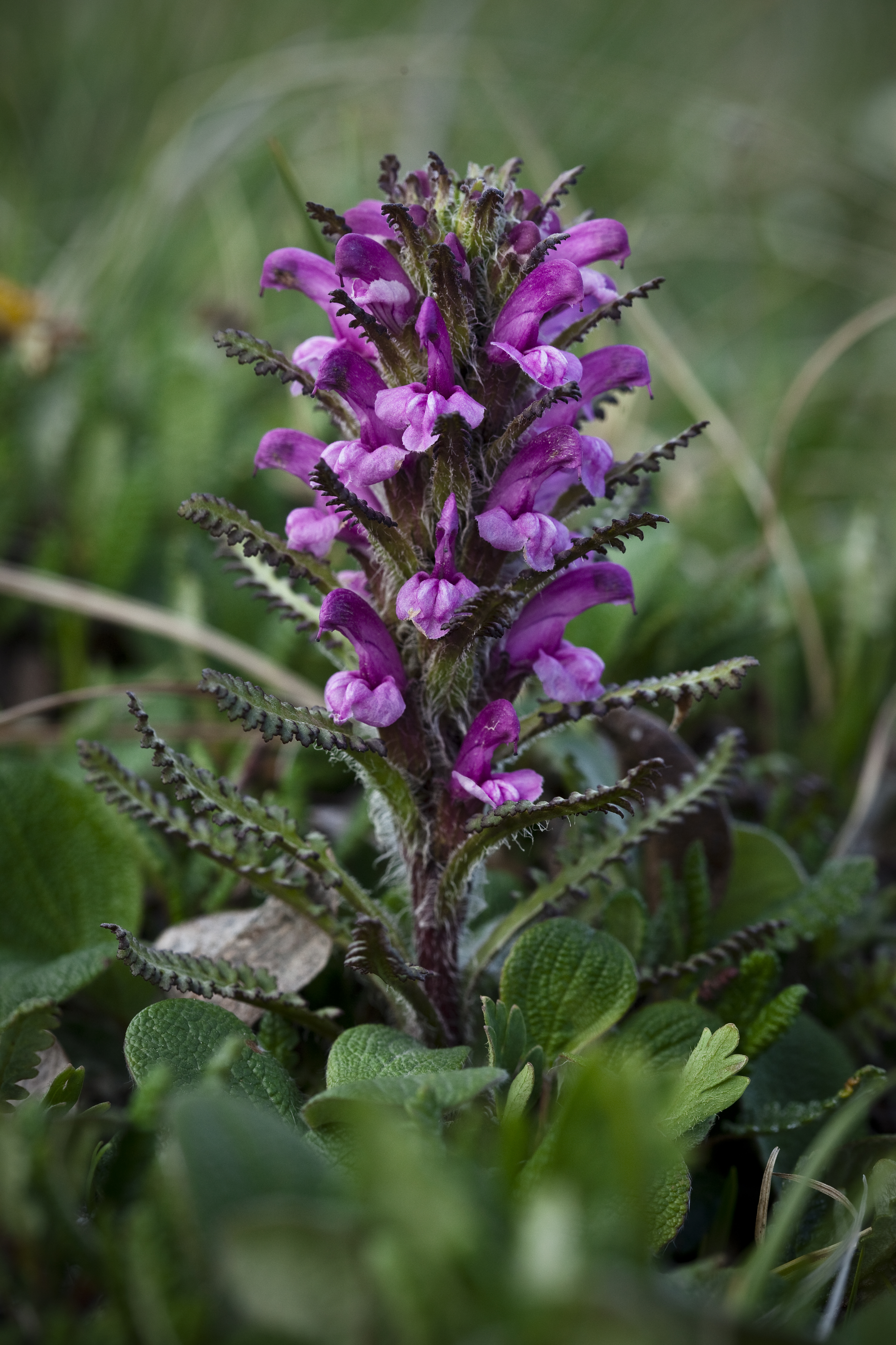 Pedicularis langsdorfii, Denali National Park and Preserve, AK, USA